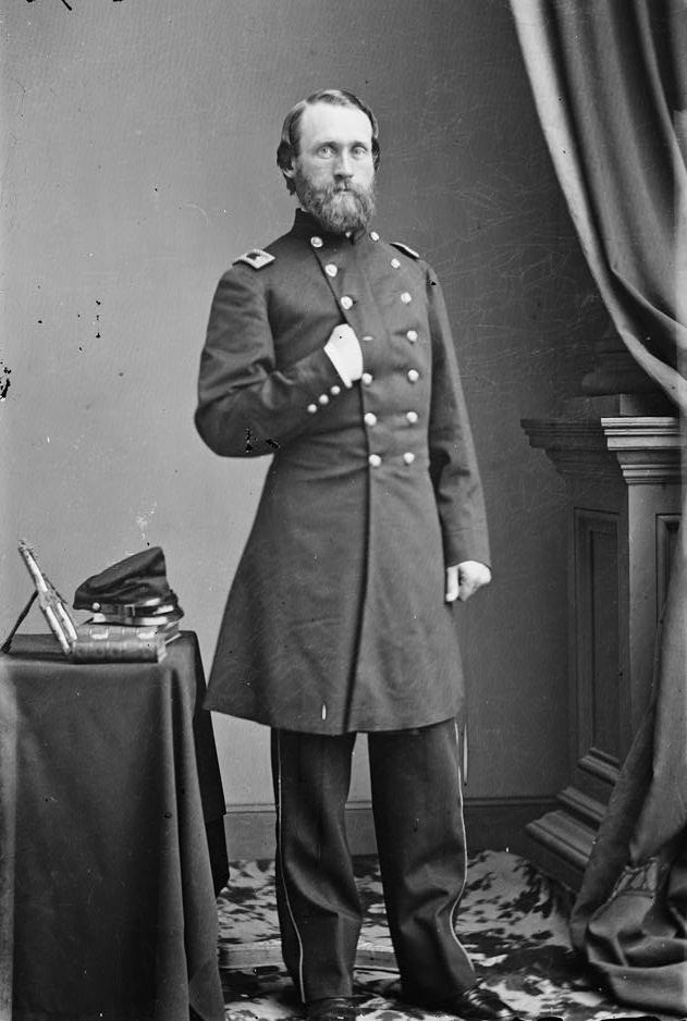 Maj. Roger Jones, Asst. Insp. General.